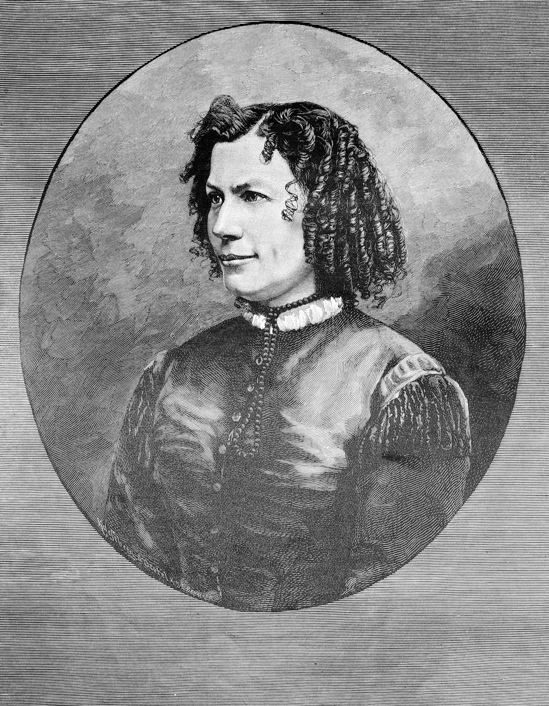 caption: "E. Marlitt. Nach einer Photographie von Chr. Beitz in Arnstadt auf Holz gezeichnet von R. Huthsteiner."